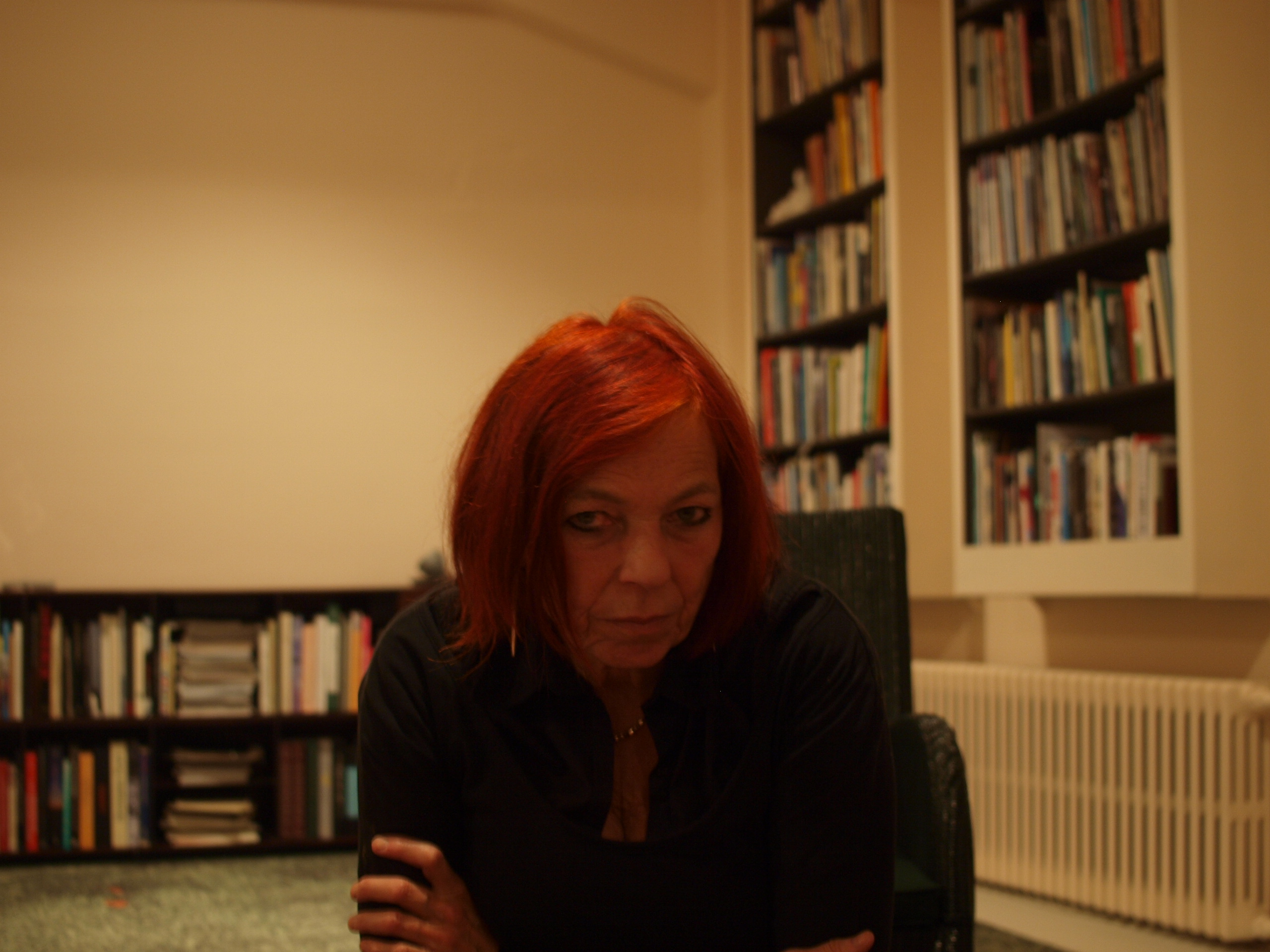 The Danish artist Kirsten Dehlholm (born 1945) photographed in Copenhagen